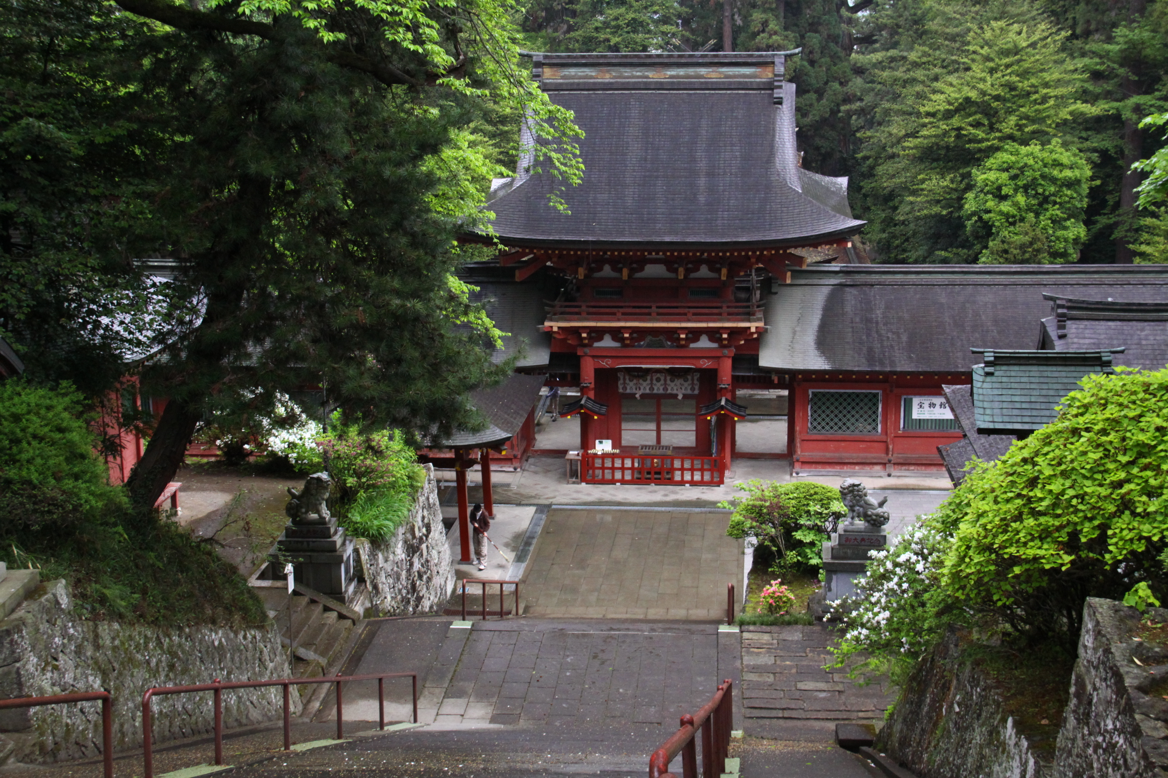 Ichinomiya nukisaki jinja Roumon